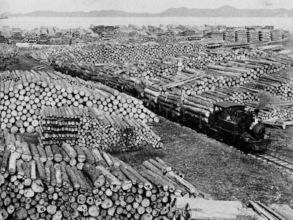 Aomori Lumber Yard (Aomori, Aomori).